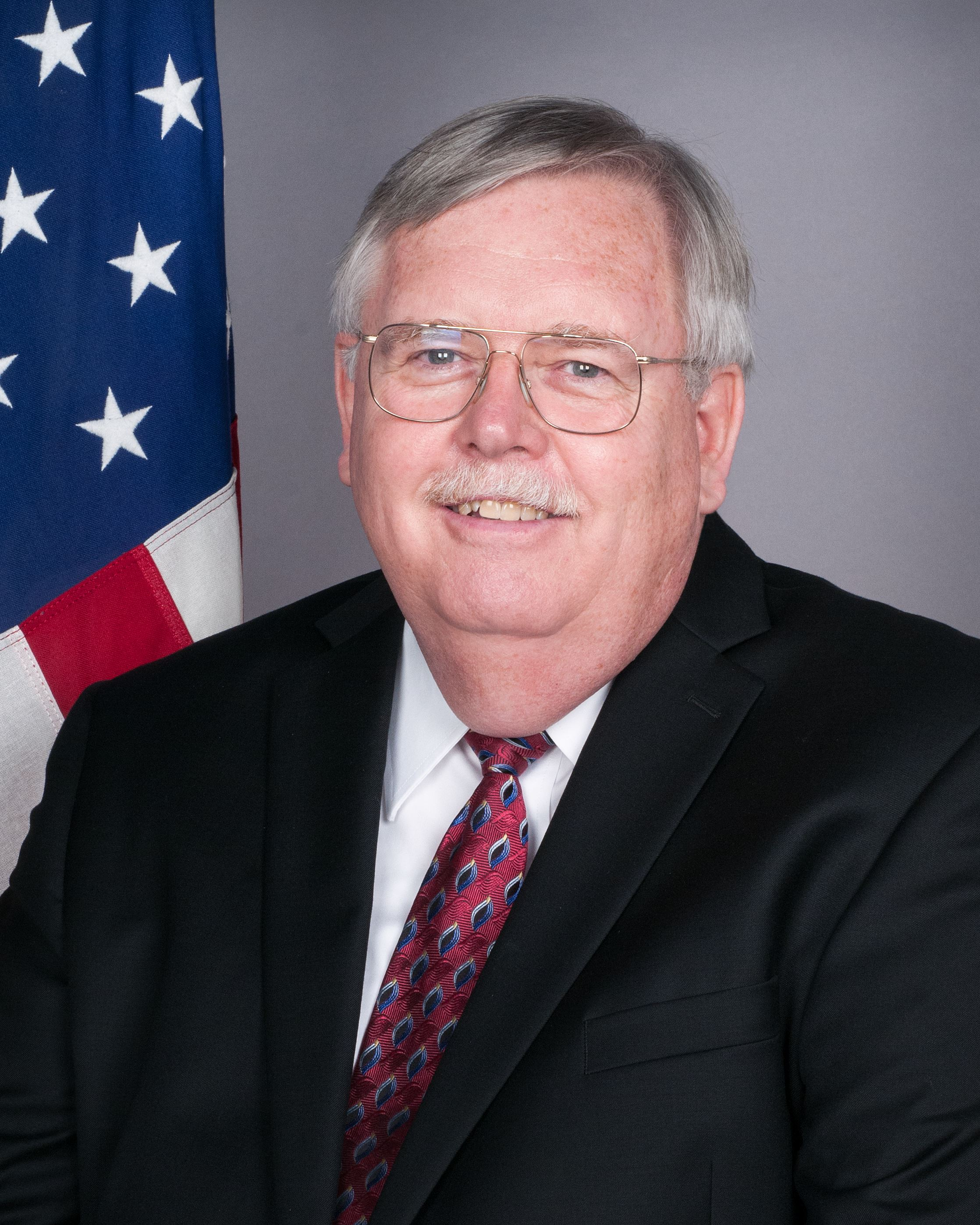 John F. Tefft, U.S. diplomat. As of 2014, U.S. ambassador to the Russian Federation.